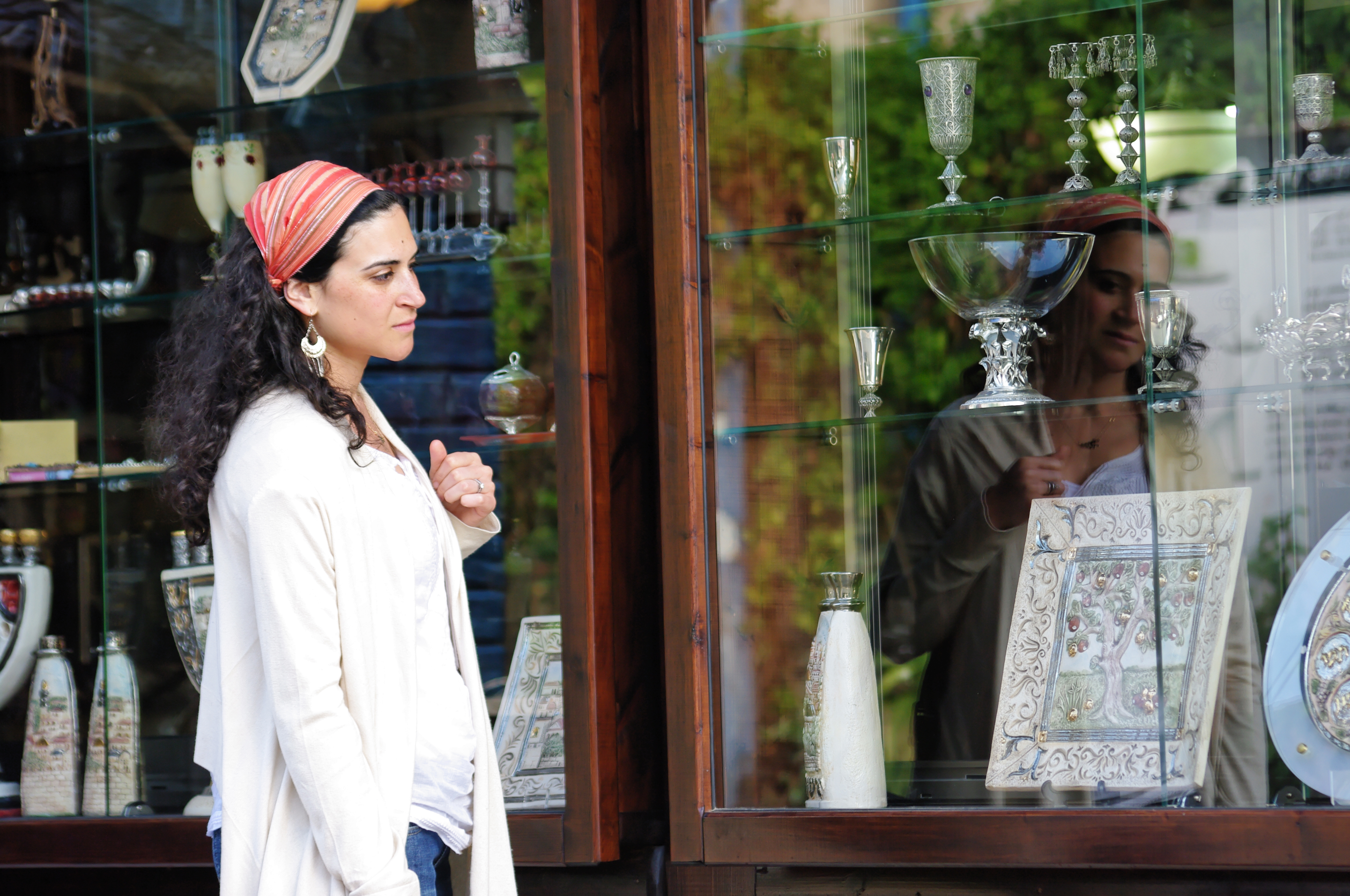 Safed Israel